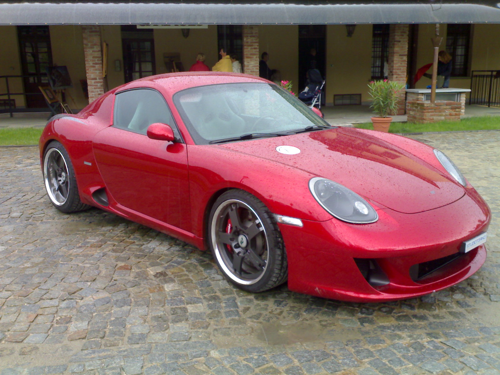 RUF Studiotorino RKCoupè in Villarbasse